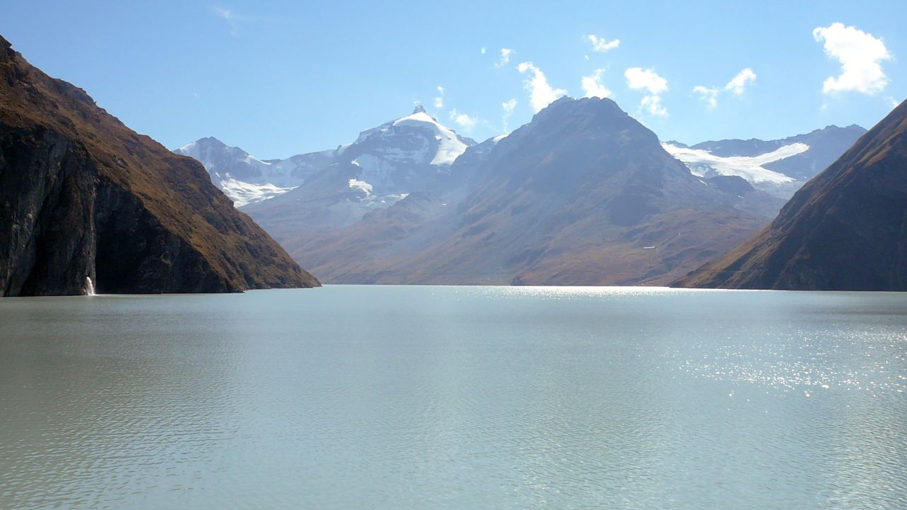 Lac des Dix. The mountains in the background, from the left to the right, are the La Luette (3548 m), the La Sâle (3646 m) and the Rochers du Bouc (3314 m), with on the right of this summit the Glacier des Ecoulaises. The slope on the left belongs to the Pointe de Vouasson (3490 m), on the right one can find the Mont Blava (2932 m).